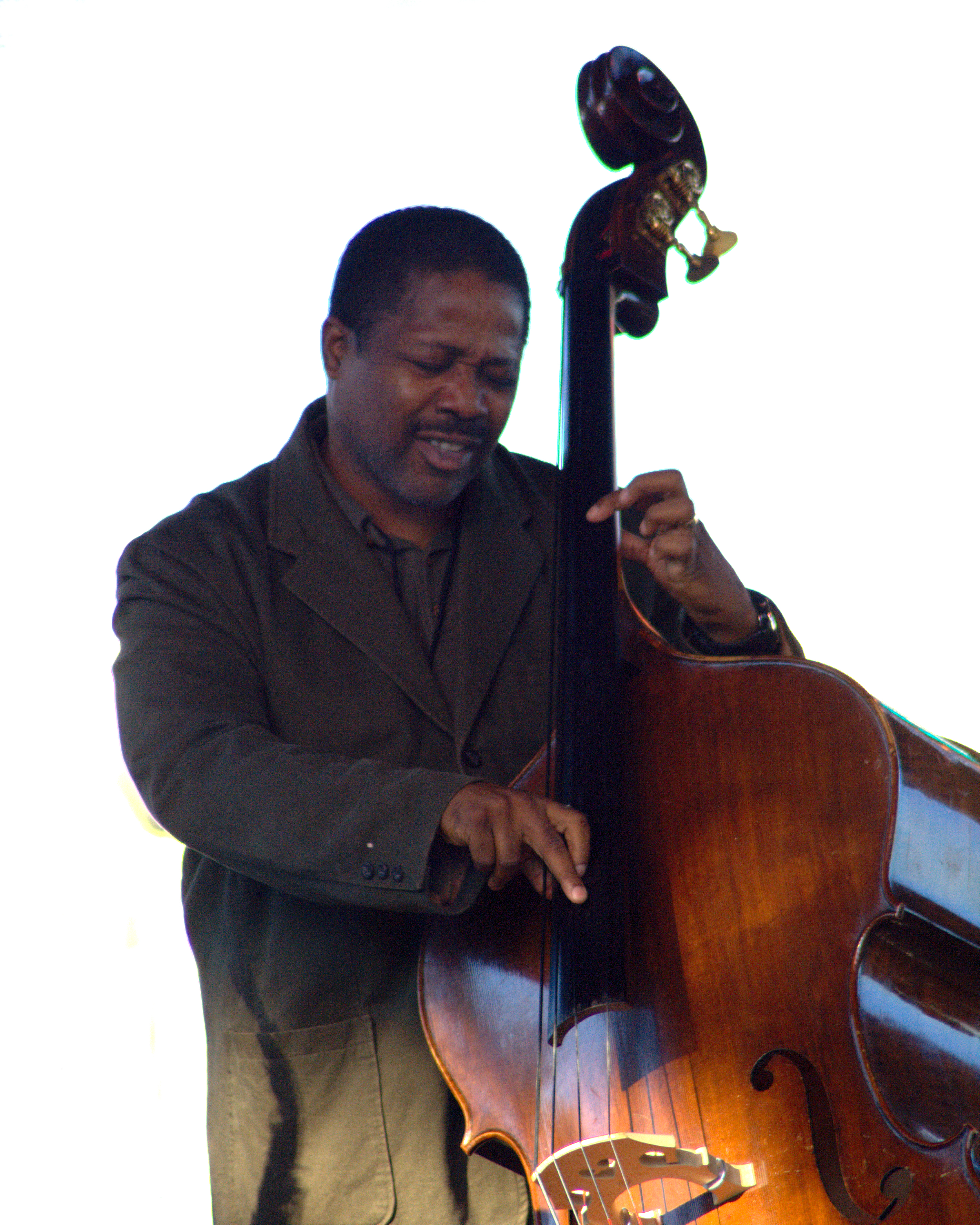 Detroit's own Rodney Whitaker (Now living in East Lansing, teaching at MSU) playing with the "Carl Allen - Rodney Whitaker Project" at the 2009 Detroit Jazz Festival